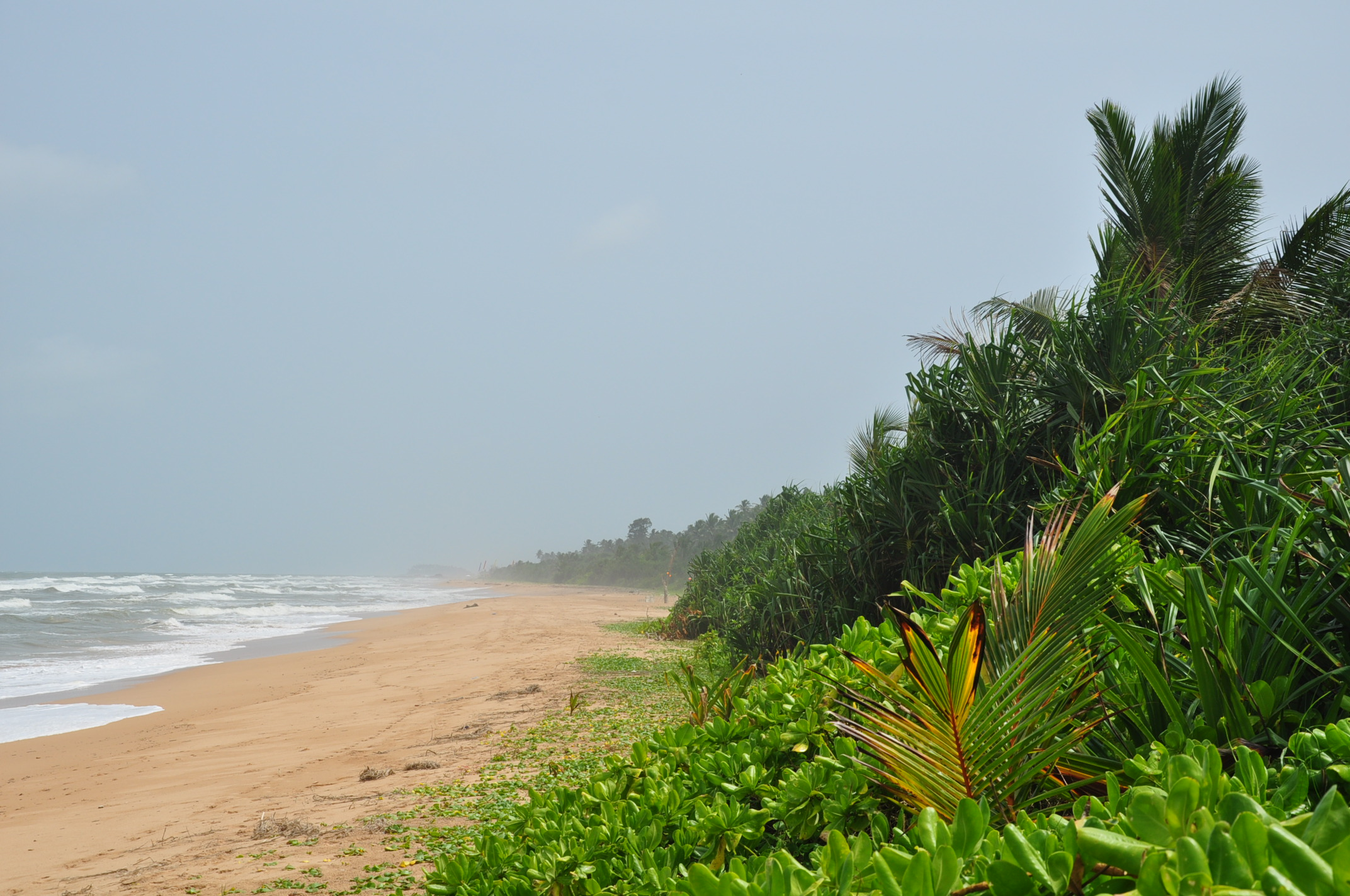 The beach at Bentota, Sri Lanka (about 38 miles south of Colombo).